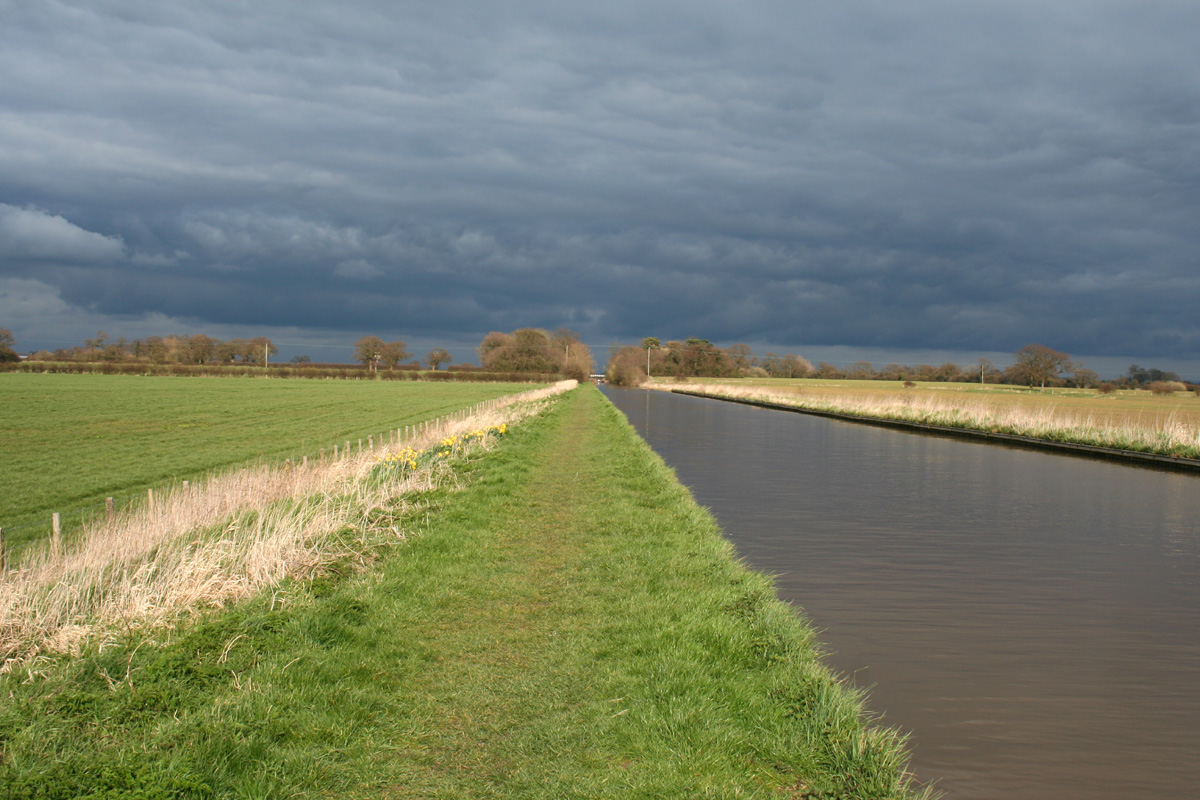 Shropshire Union Canal at Cholmondeston, Cheshire